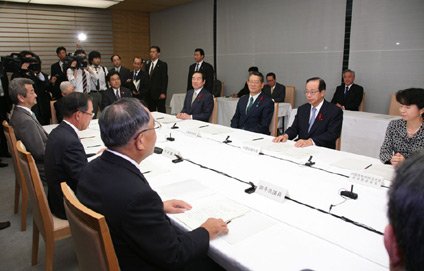 Yasuo Fukuda, Prime Minister, attended a meeting of the Council on Economic and Fiscal Policy, Cabinet Office with Nobutaka Machimura, Chief Cabinet Secretary, and Hiroko Ōta, Minister of State for Economic and Fiscal Policy, at the Prime Minister's Official Residence in Chiyoda Ward, Tōkyō Metropolis on October 4, 2007.